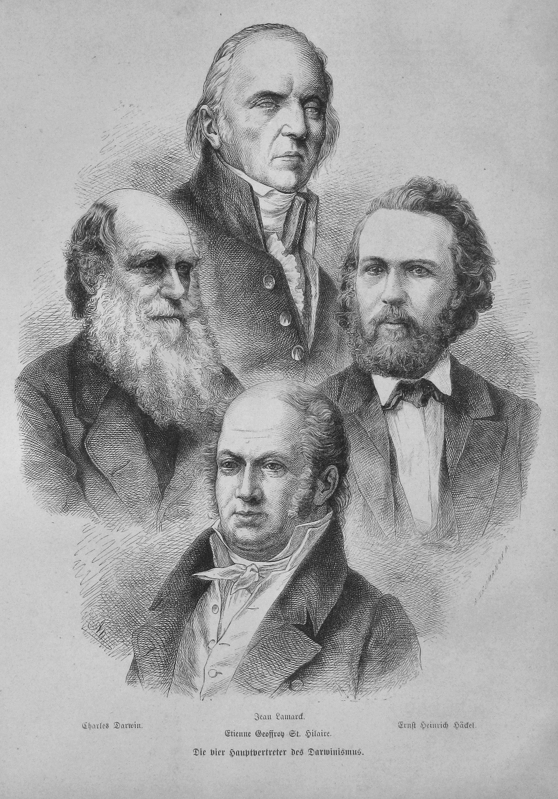 caption: "Jean Lamarck.Charles Darwin. Ernst Heinrich Häckel.Etienne Geoffroy St. Hilaire.Die vier Hauptvertreter des Darwinismus."